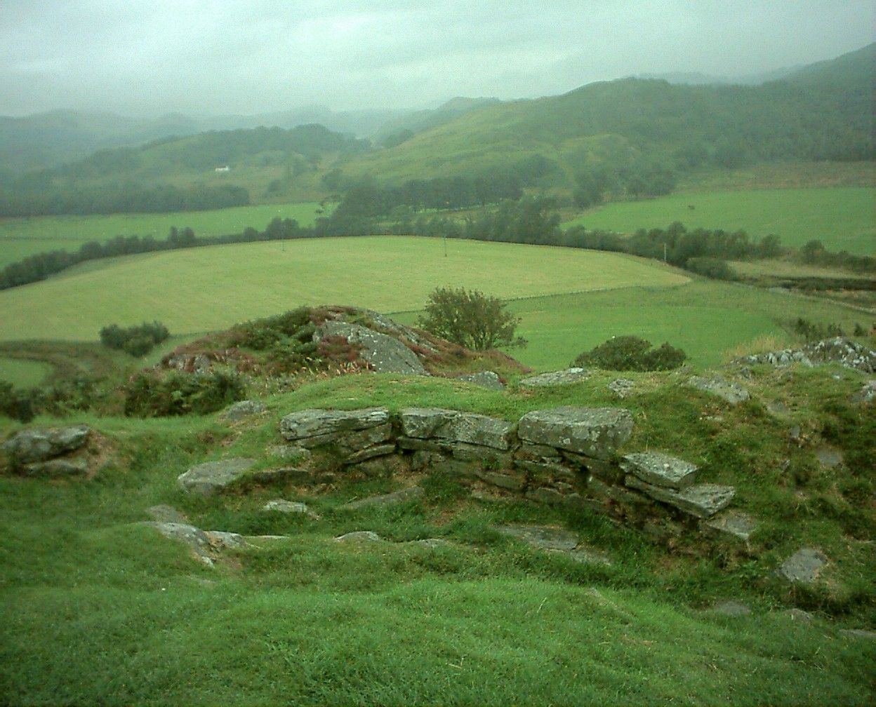 Dunadd, Kilmartin Glen, Scotland